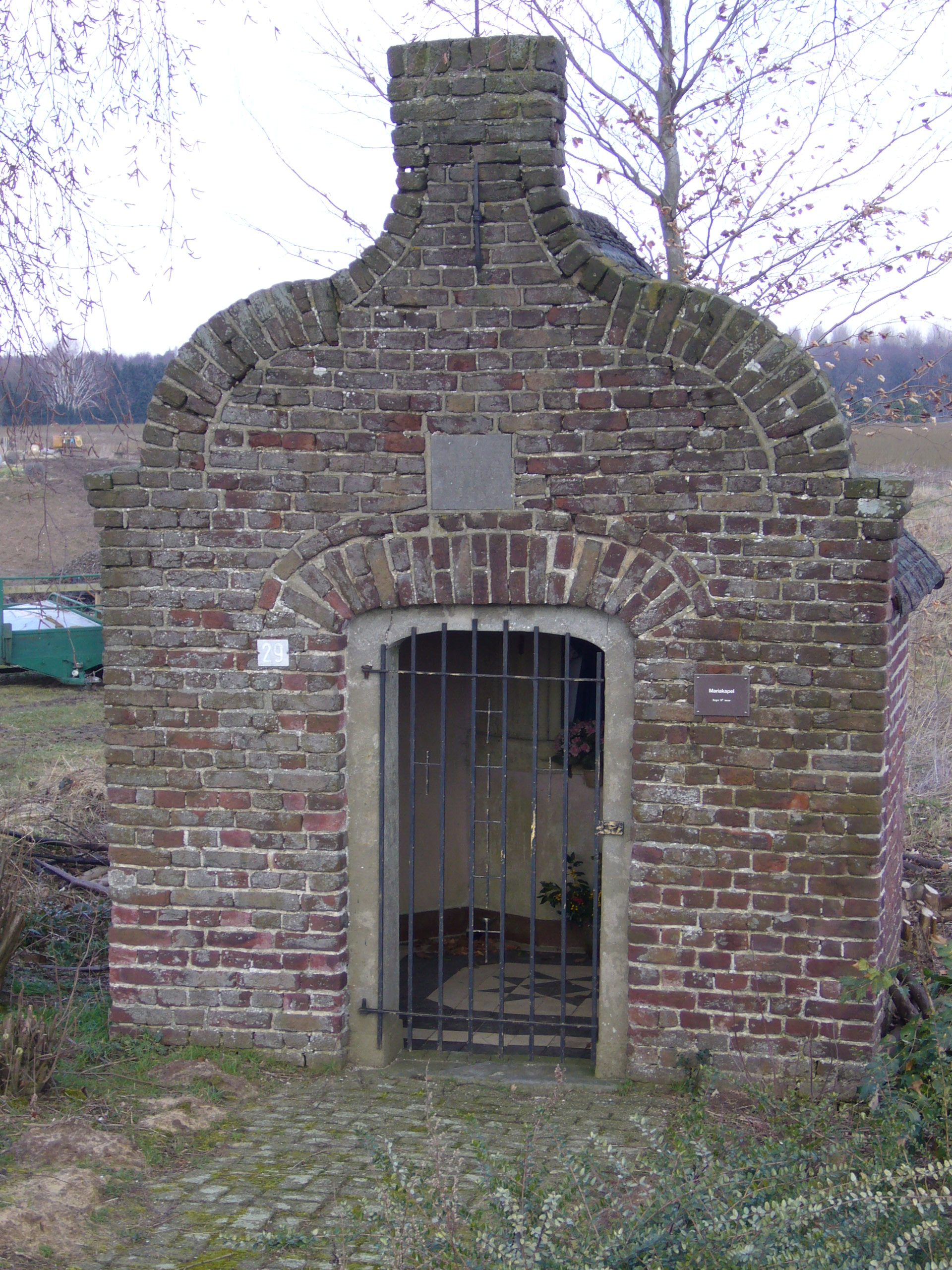 Mary chapel in Megelsum, hamlet in Meerlo-Wanssum, Limburg, the Netherlands